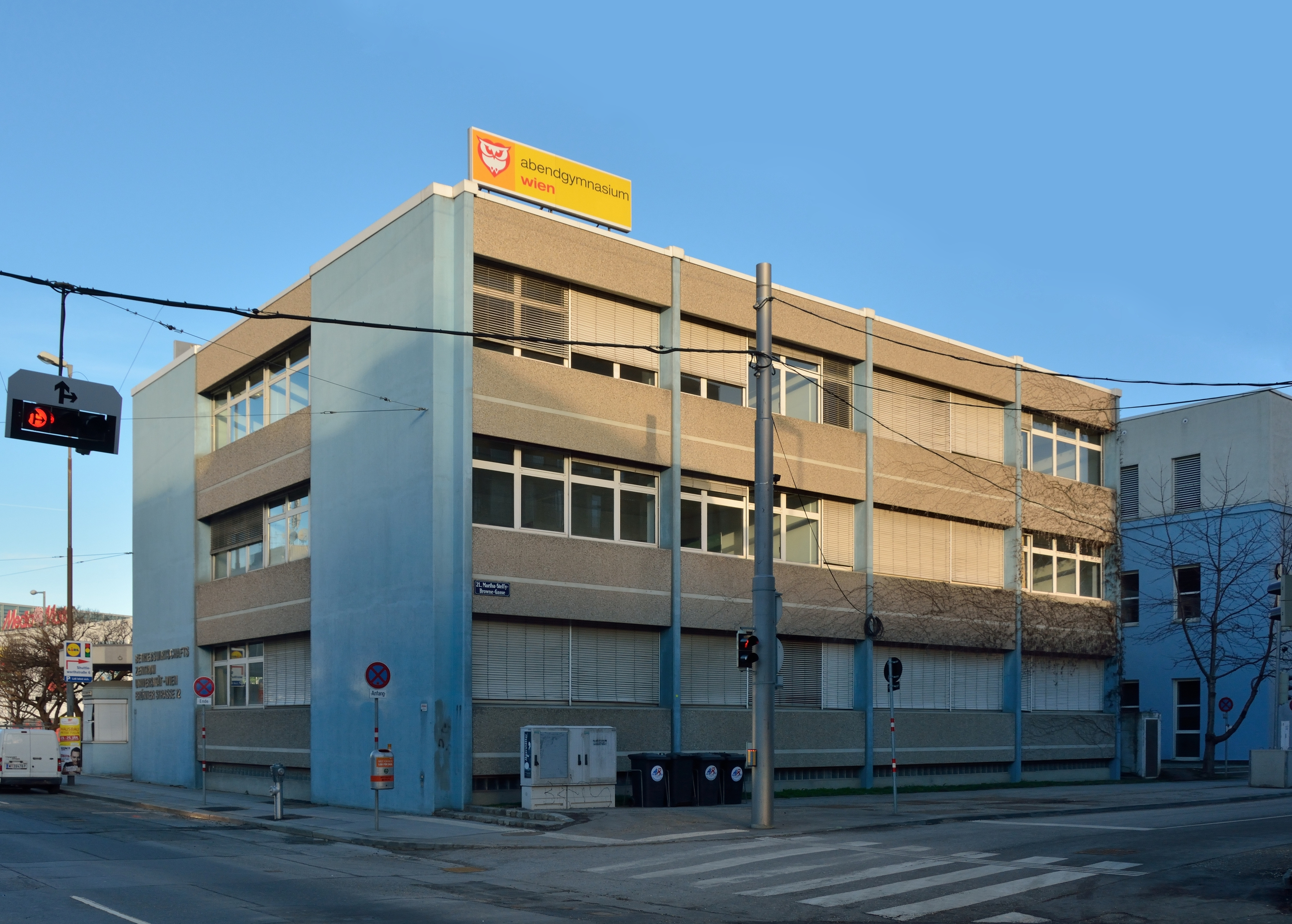 Abendgymnasium Wien, Brünner Straße 72, 21st district of Vienna